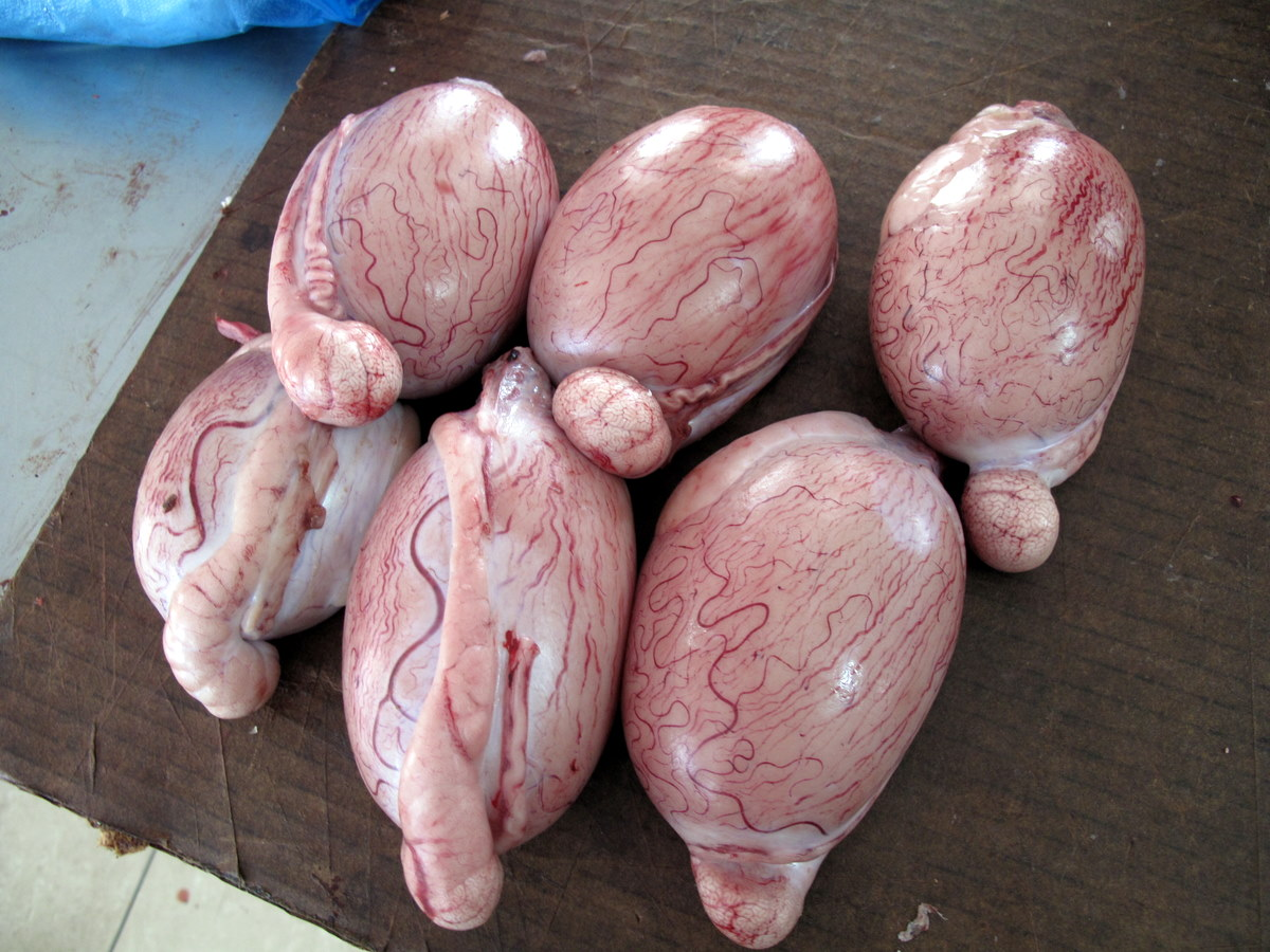 Bought one for 50 cents for the sake of experimentation.